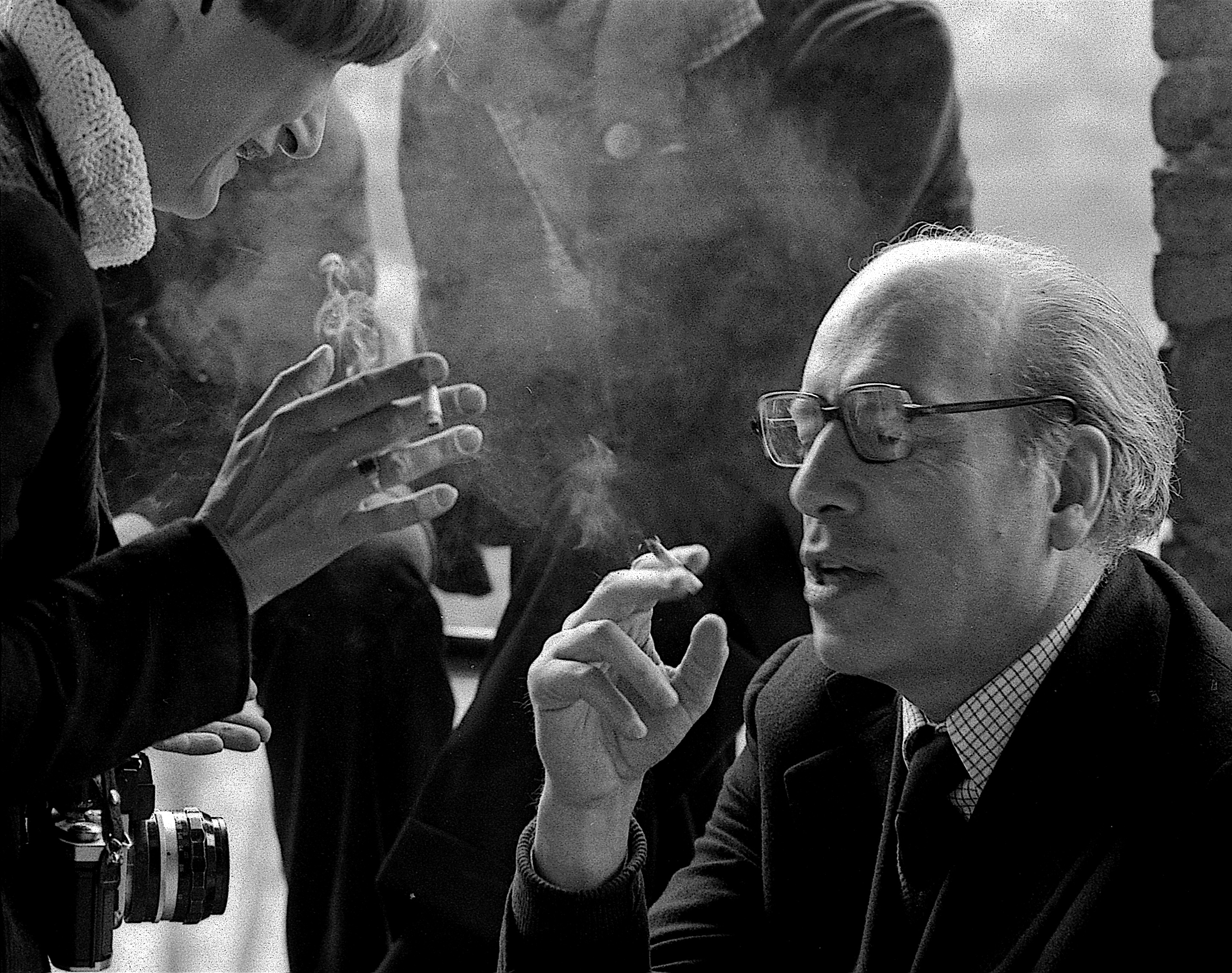 Author Ottiero Ottieri with author-photographer Carla Cerati, at a party in honour of Jorge Luis Borges, spring 1977